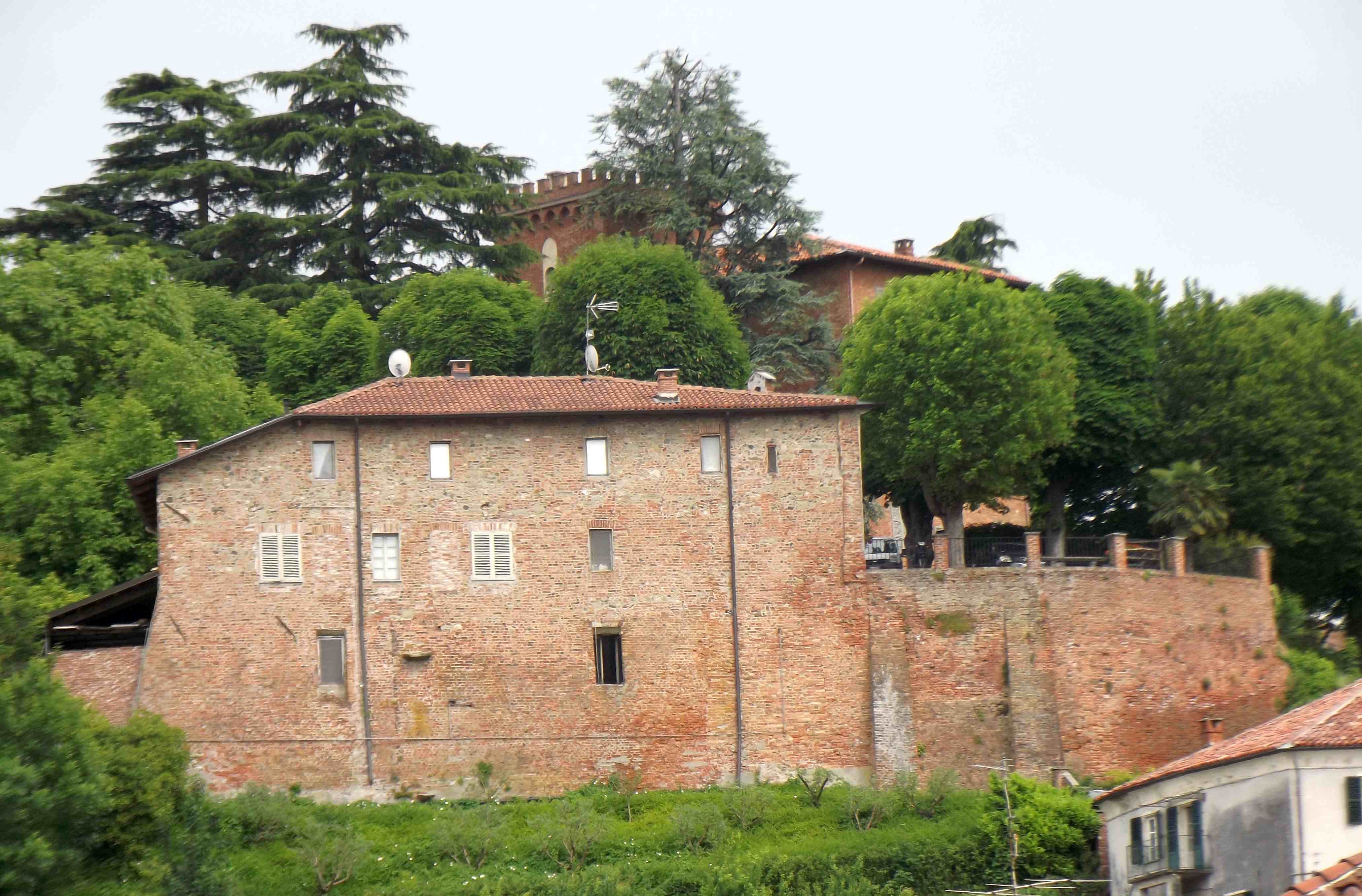 Sciolze (TO): the castle